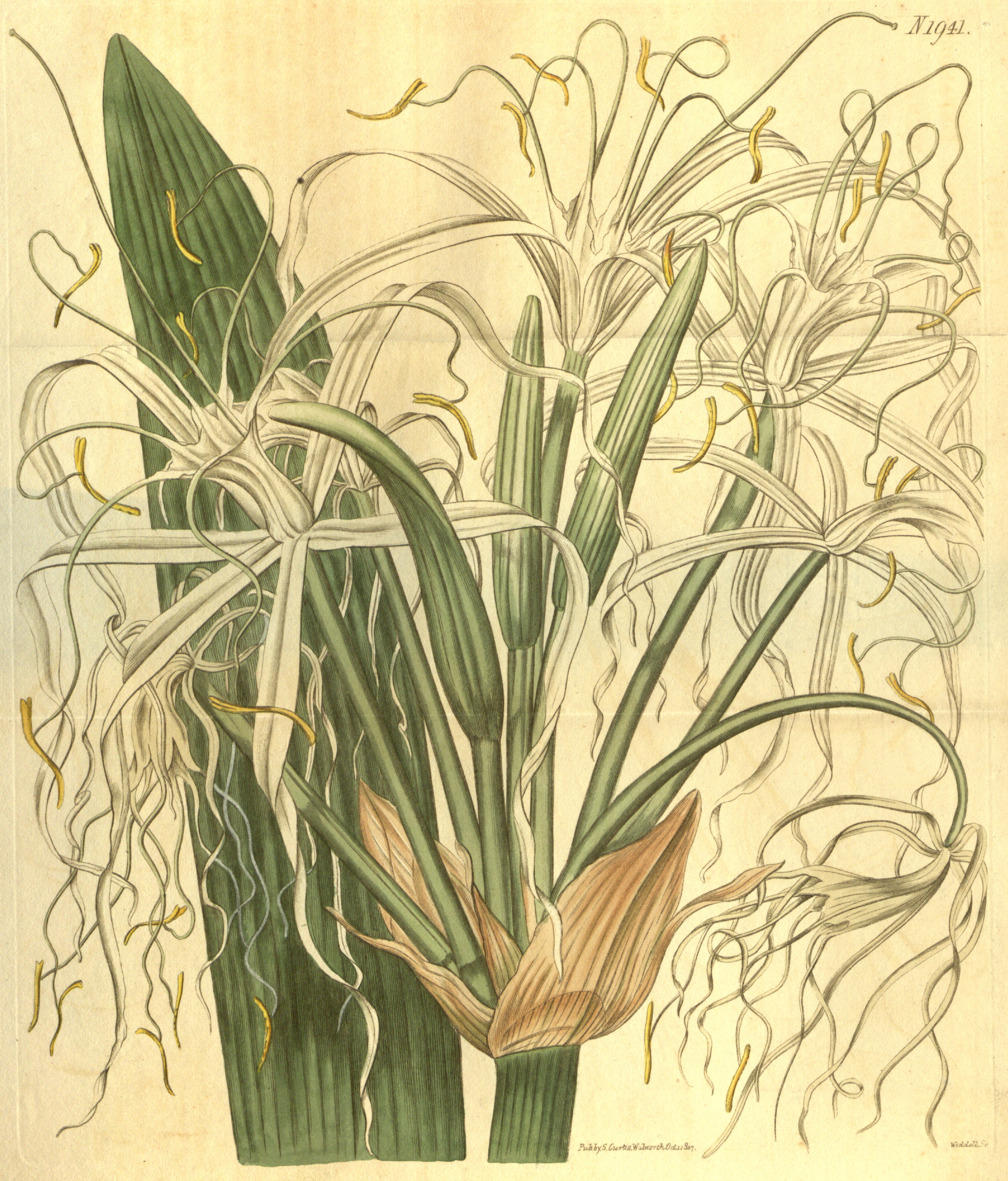 Hymenocallis latifolia, as Pancratium expansum